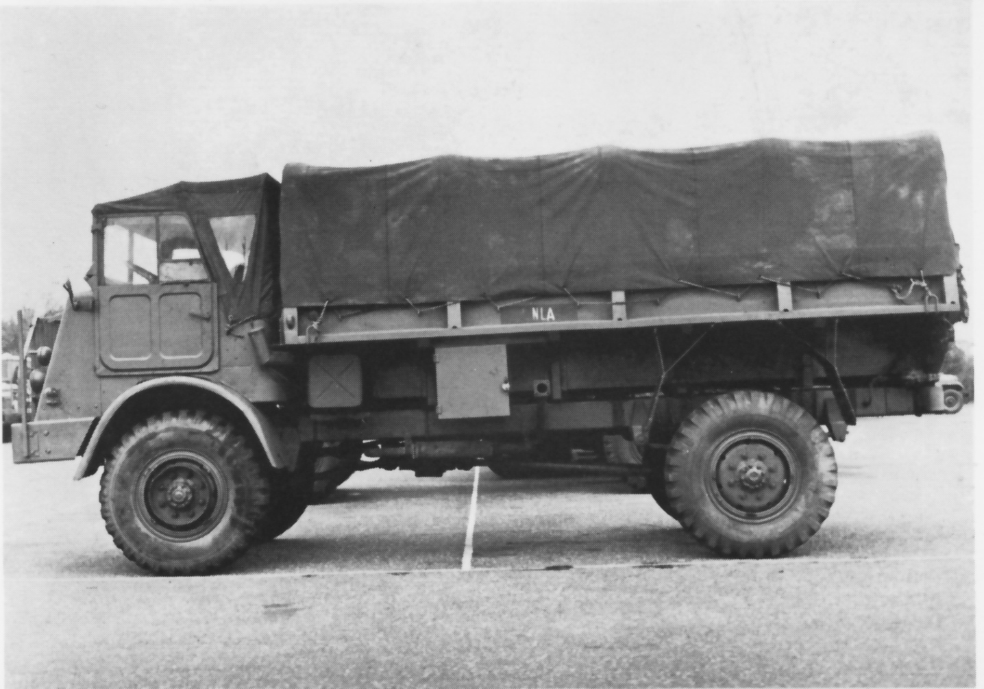 3 tons DAF YA-314 military truck.